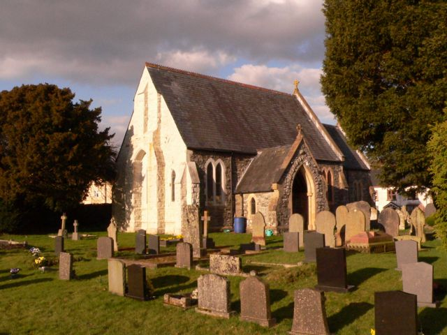 St. Gwrthwl's Parish Church, Llanwrthwl. A view of St. Gwrthwl's Parish Church, Llanwrthwl.